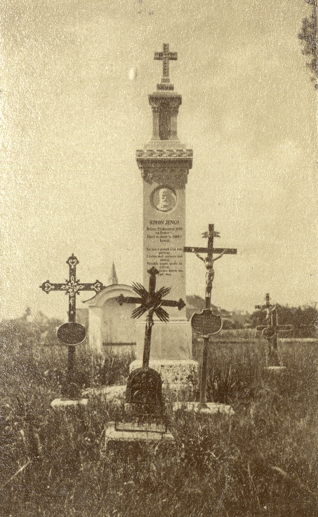 Simon Jenko grave.